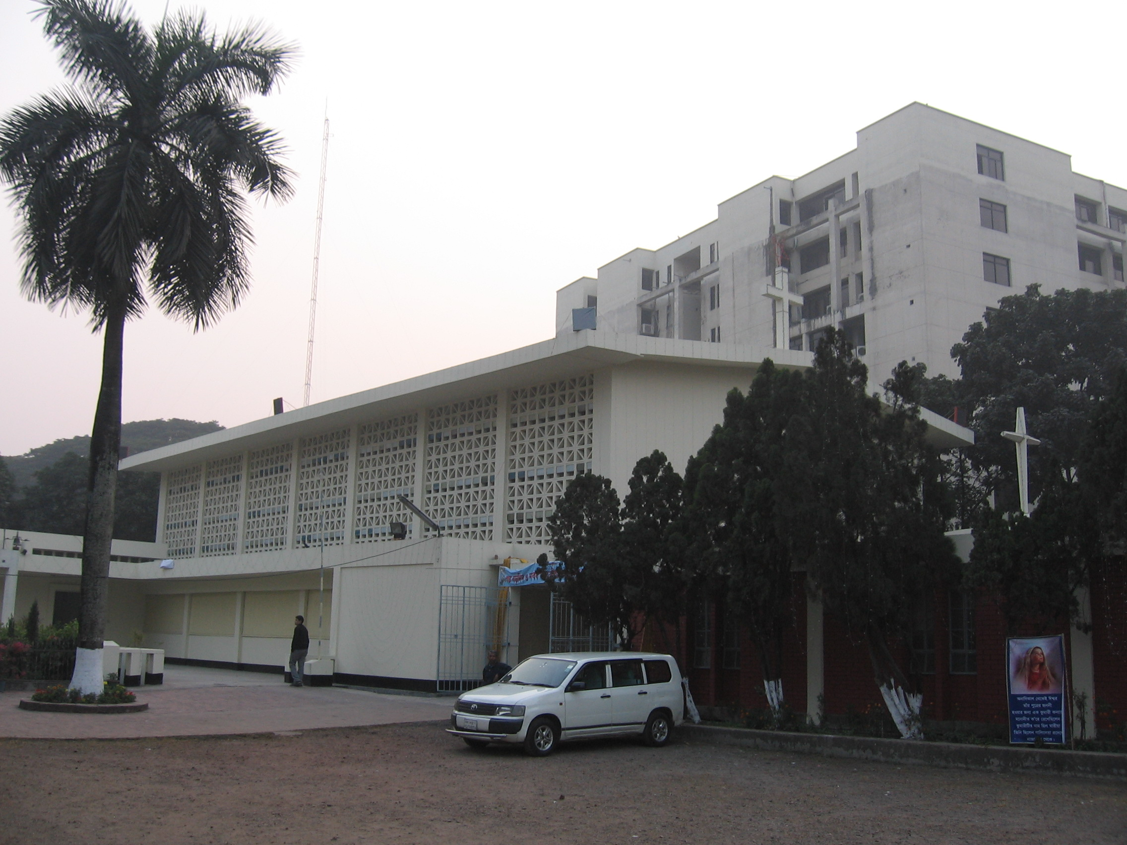 The Catholic cathedral of the Immaculate Conception (Archdiocese of Dhaka) was built in 1993. It is at Ramna, Dhaka (Bangladesh). As per rule (in Bangladesh) it has no steeple.